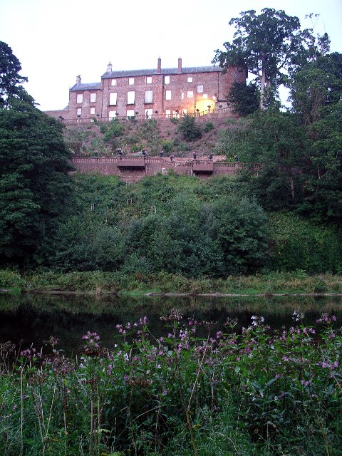 Corby Castle is an ancestral home of the Howard family situated on the southern edge of the village of Great Corby in northern Cumbria, England. On the foreground is river Eden.